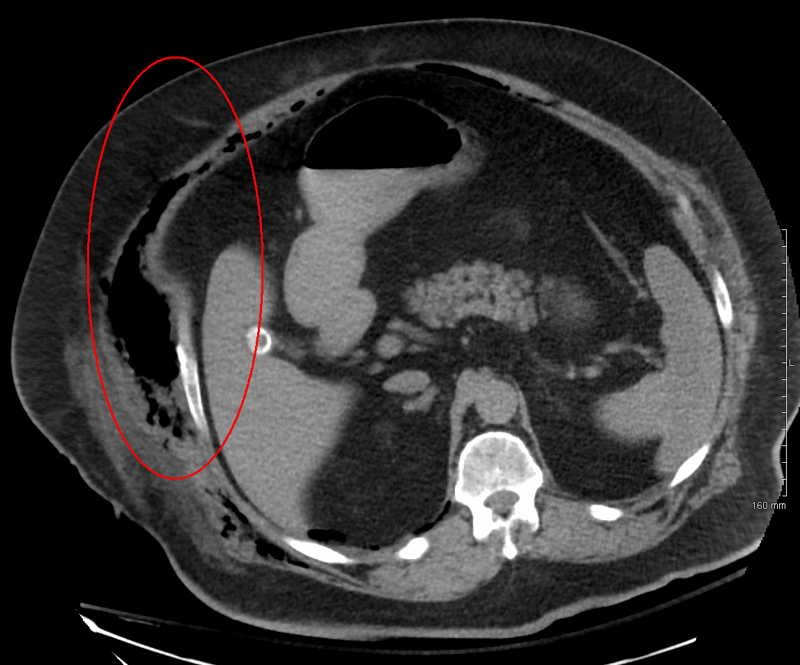 Necrotising fascitis causing air in soft tissues